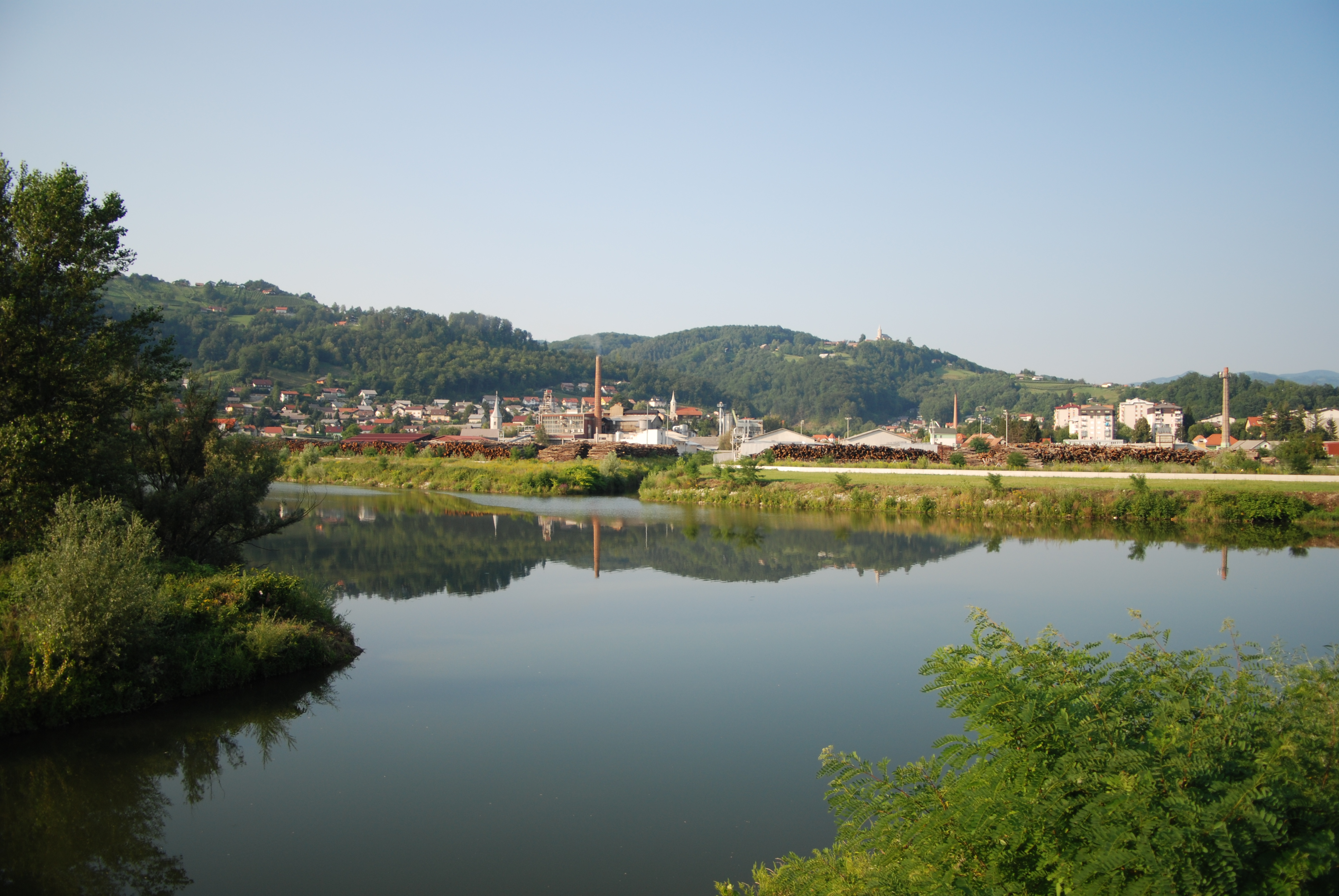 The confluence of the Mirna and the Sava in Boštanj. The town of Sevnica in the background.